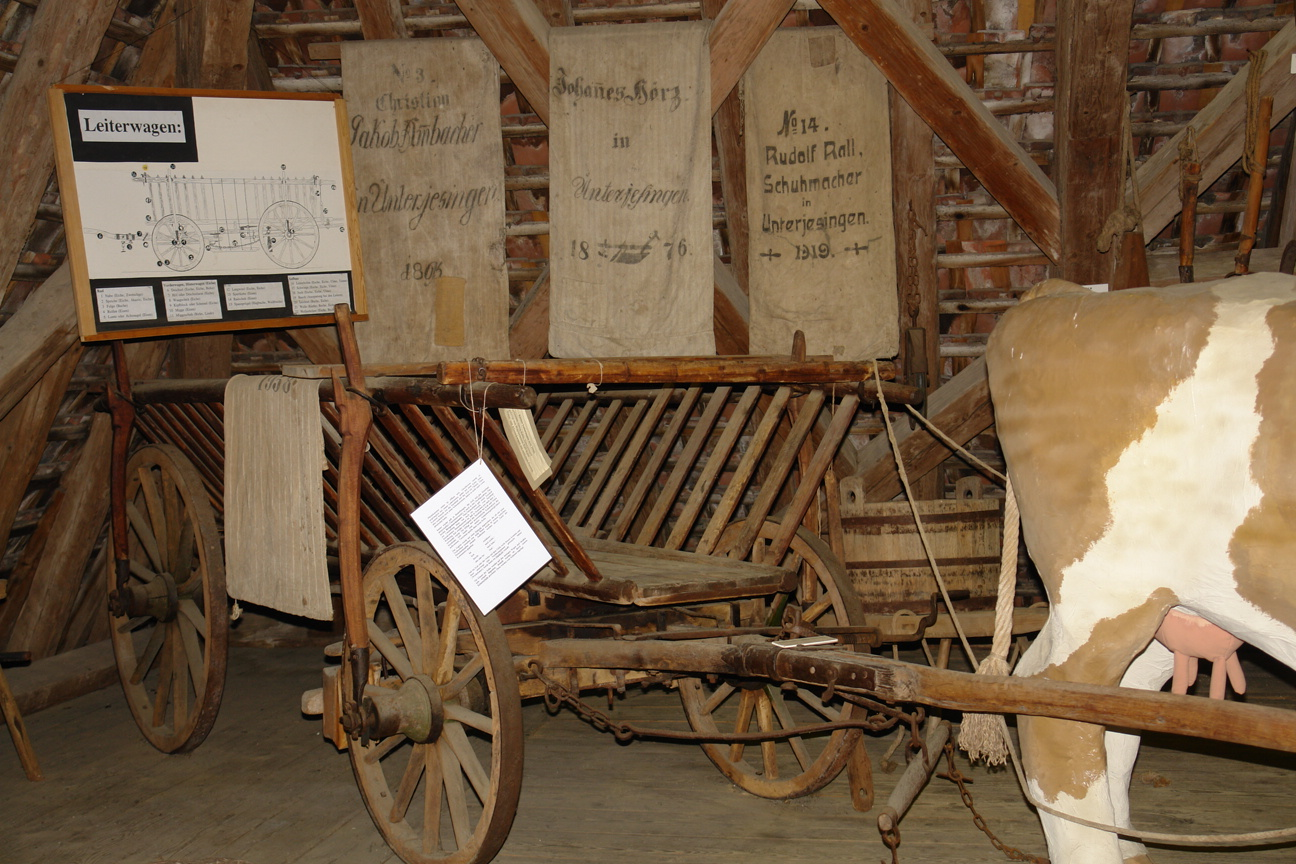 Ox-wagon in the local history museum of Tübingen-Unterjesingen (Germany)